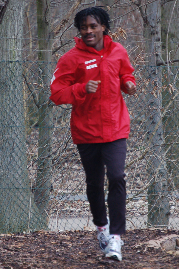 Ghanaian footballer Derek Boateng.